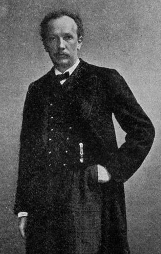 Richard Strauss (June 11, 1864 – September 8, 1949) was a German composer of the late Romantic era and early modern era, particularly noted for his tone poems and operas. He was also a noted conductor.